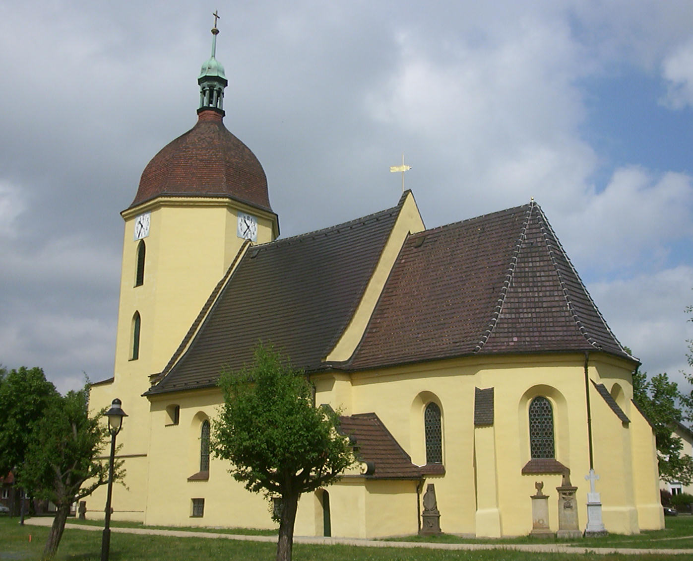 The church of Schleife, build in the late gothic. Map: 51° 32' 36" N, 14° 32' 17" E